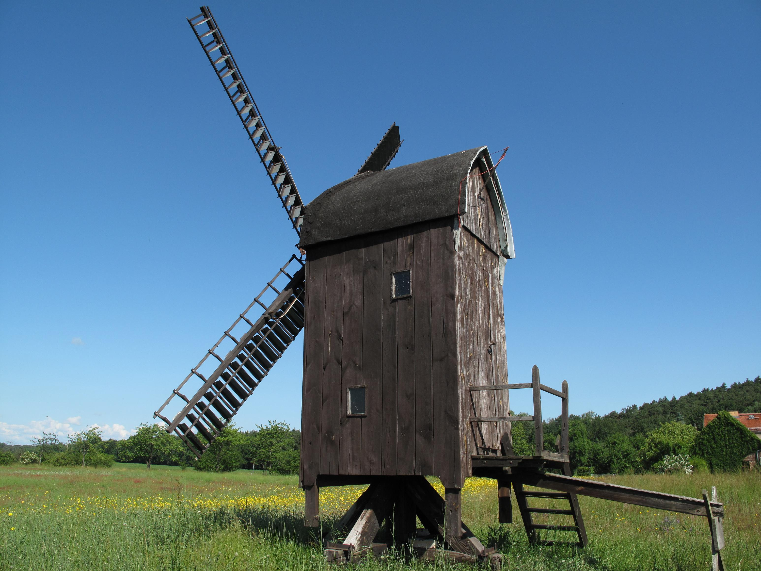 Listed Post mill (miniature mill on a 1:4 scale) Langerwisch. Langerwisch is a part of Michendorf in the district Potsdam-Mittelmark, state Brandenburg, Germany.